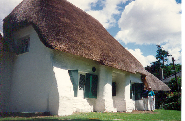 Come To Good Friends' Meeting House, near Feock and Truro, Cornwall. Built in 1710, this Friends' Meeting House was still in use in 1993. A beautifully, simply and quiet location to sit and contemplate.